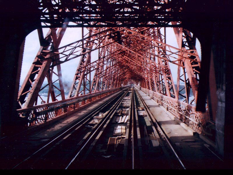 Inside the Forth Rail Bridge, from a ScotRail 158 on August 22, 1999.